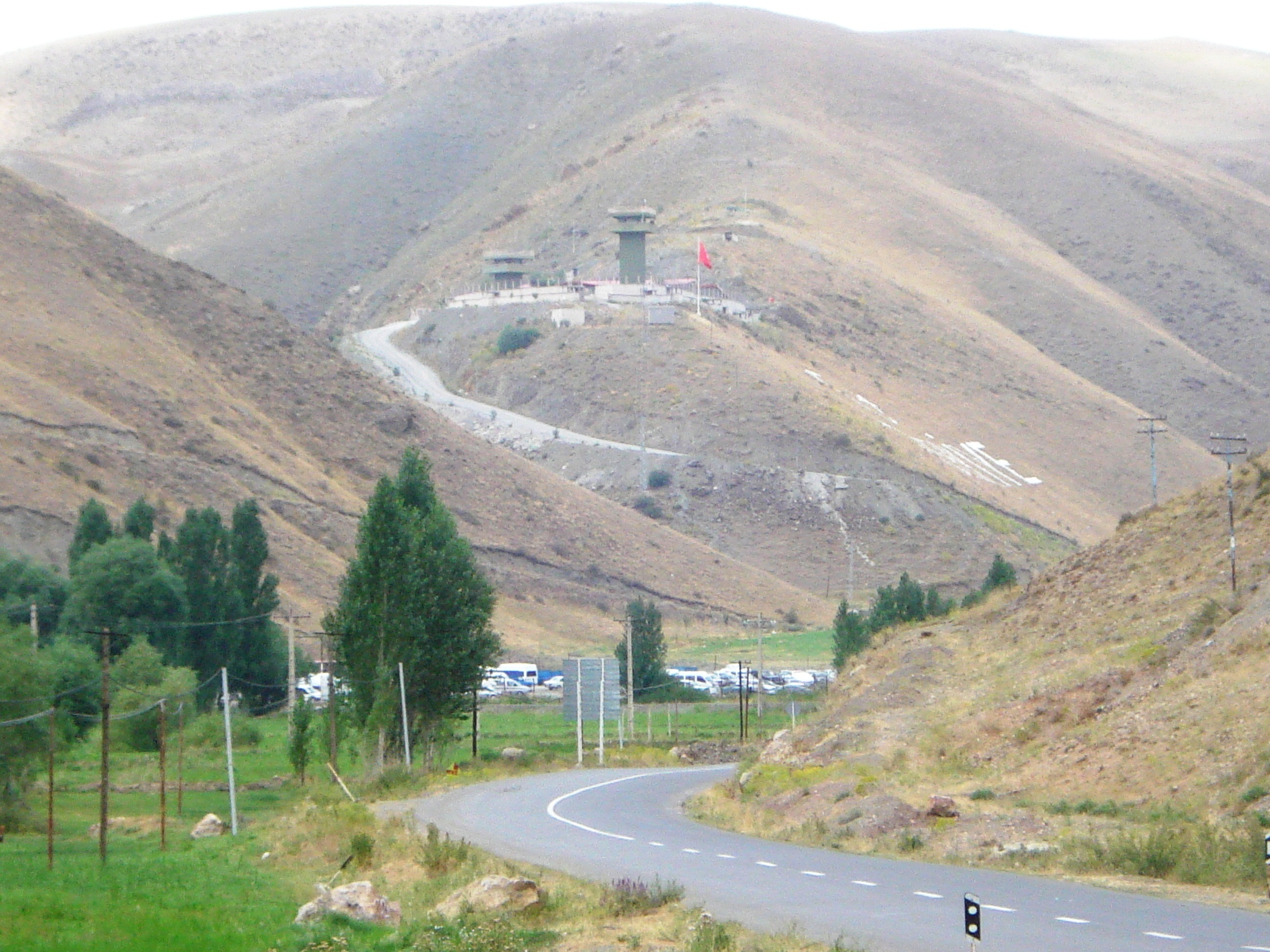 road of razi border